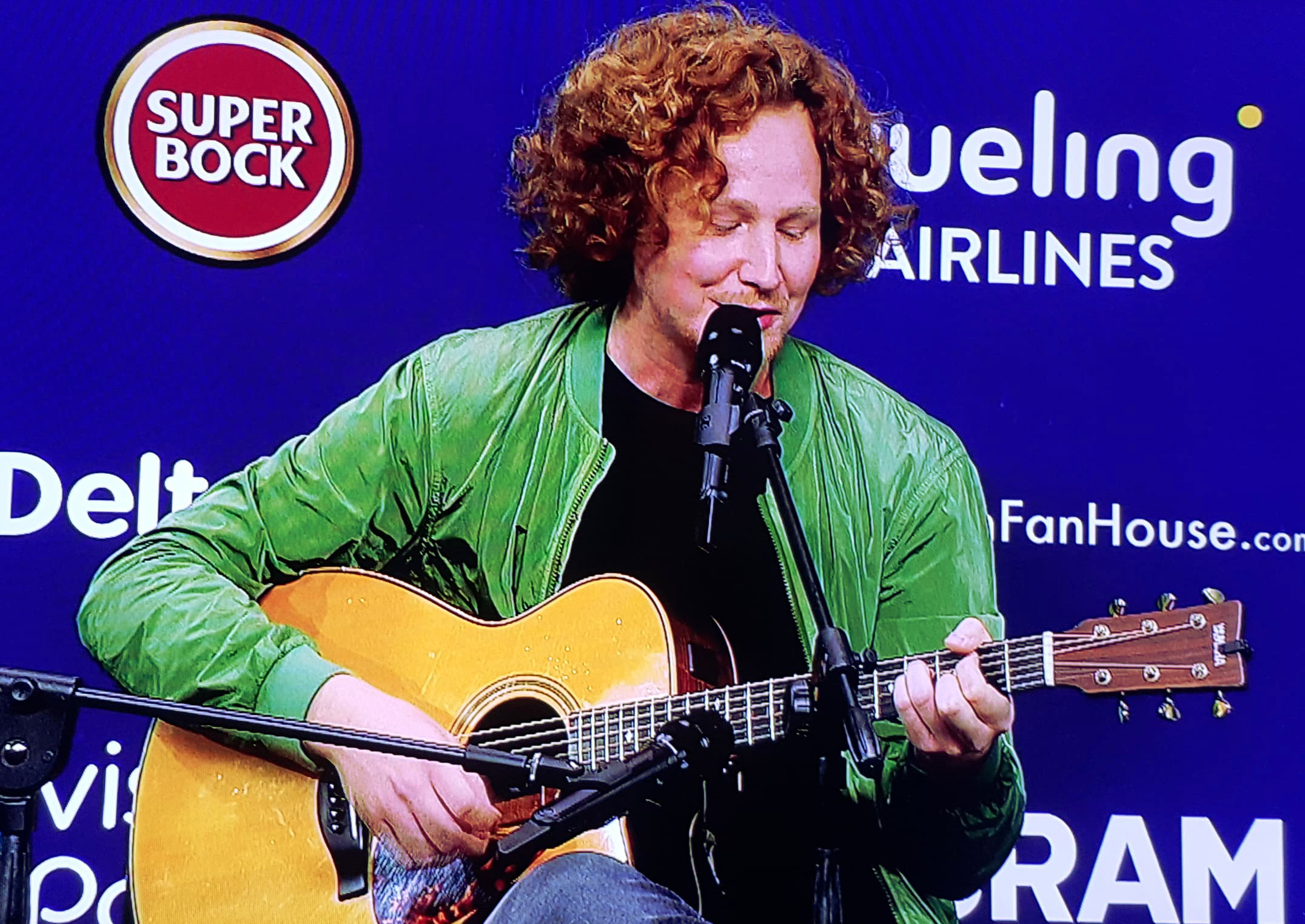 German singer Michael Schulte on May 2018.